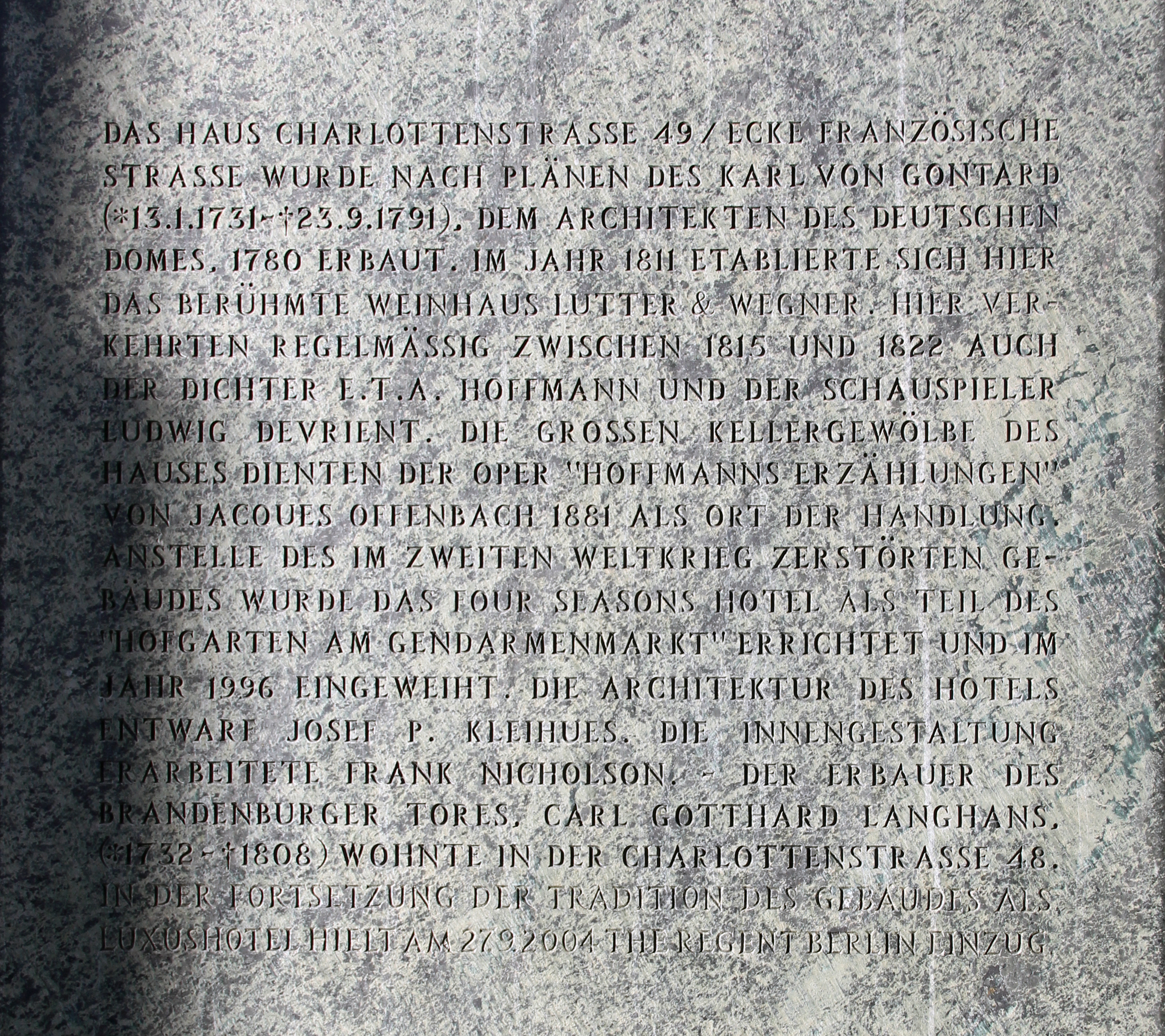 Memorial plaque, Lutter & Wegner, Charlottenstraße 49, Berlin-Mitte, Germany